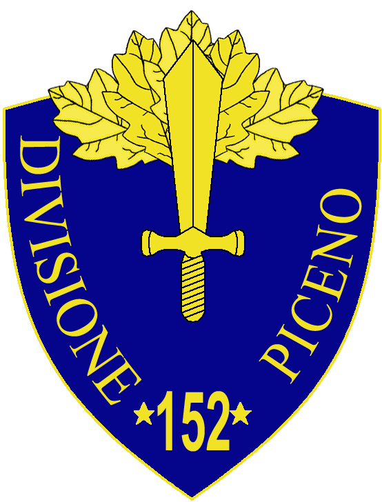 152a Divisione Fanteria Piceno insignia, Regio Esercito, Italy, WWII